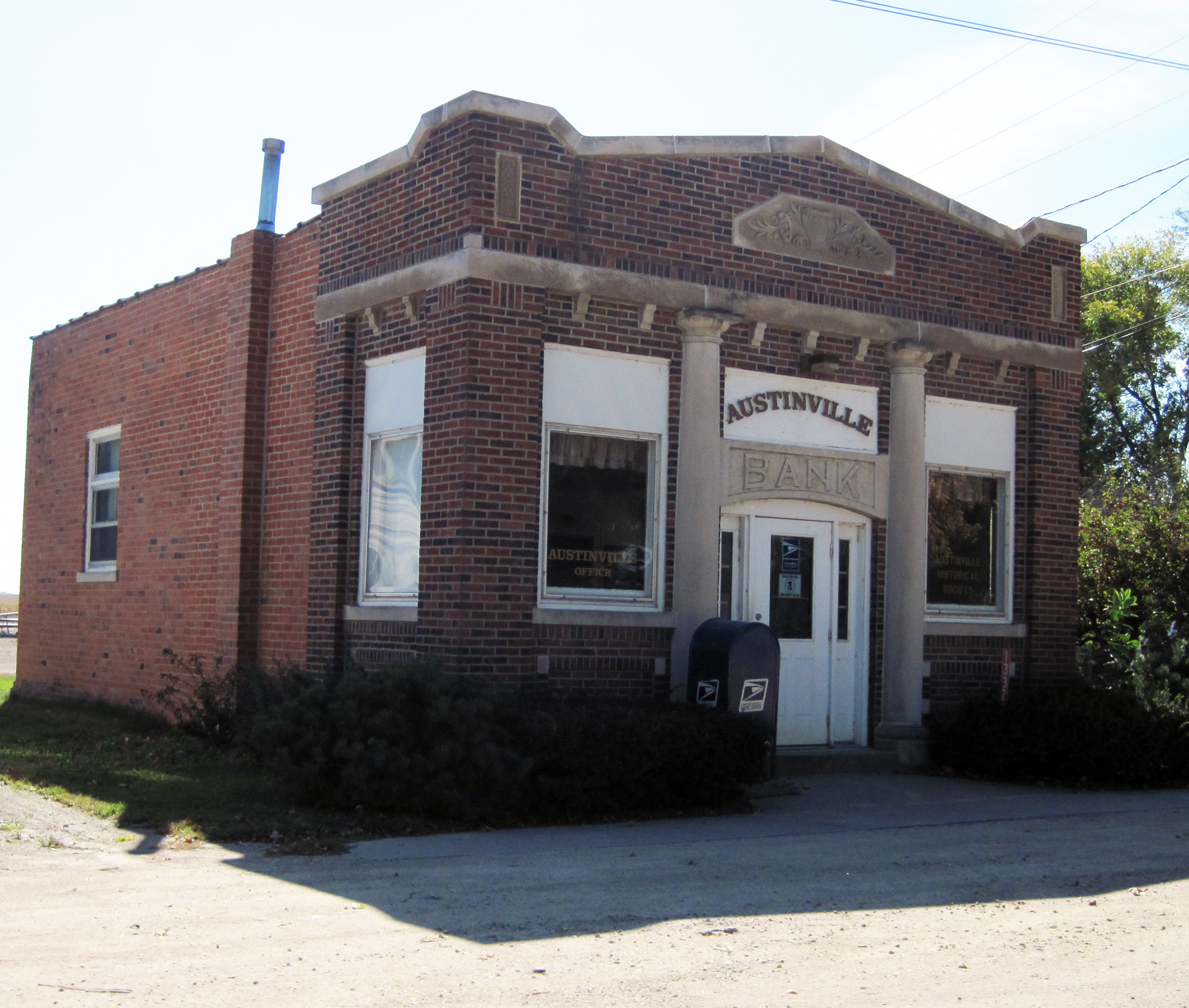 Bank, Austinville Bill Whittaker| (talk|) 12:54, 2 October 2009 (UTC) Summary Bank, Austinville Bill Whittaker (talk) 12:54, 2 October 2009 (UTC)